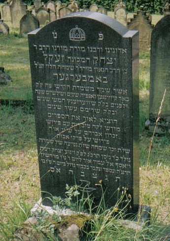 Tombstone of Rabbi Seckel Bamberger (1863-1934) in Bad KIssingen (Germany)